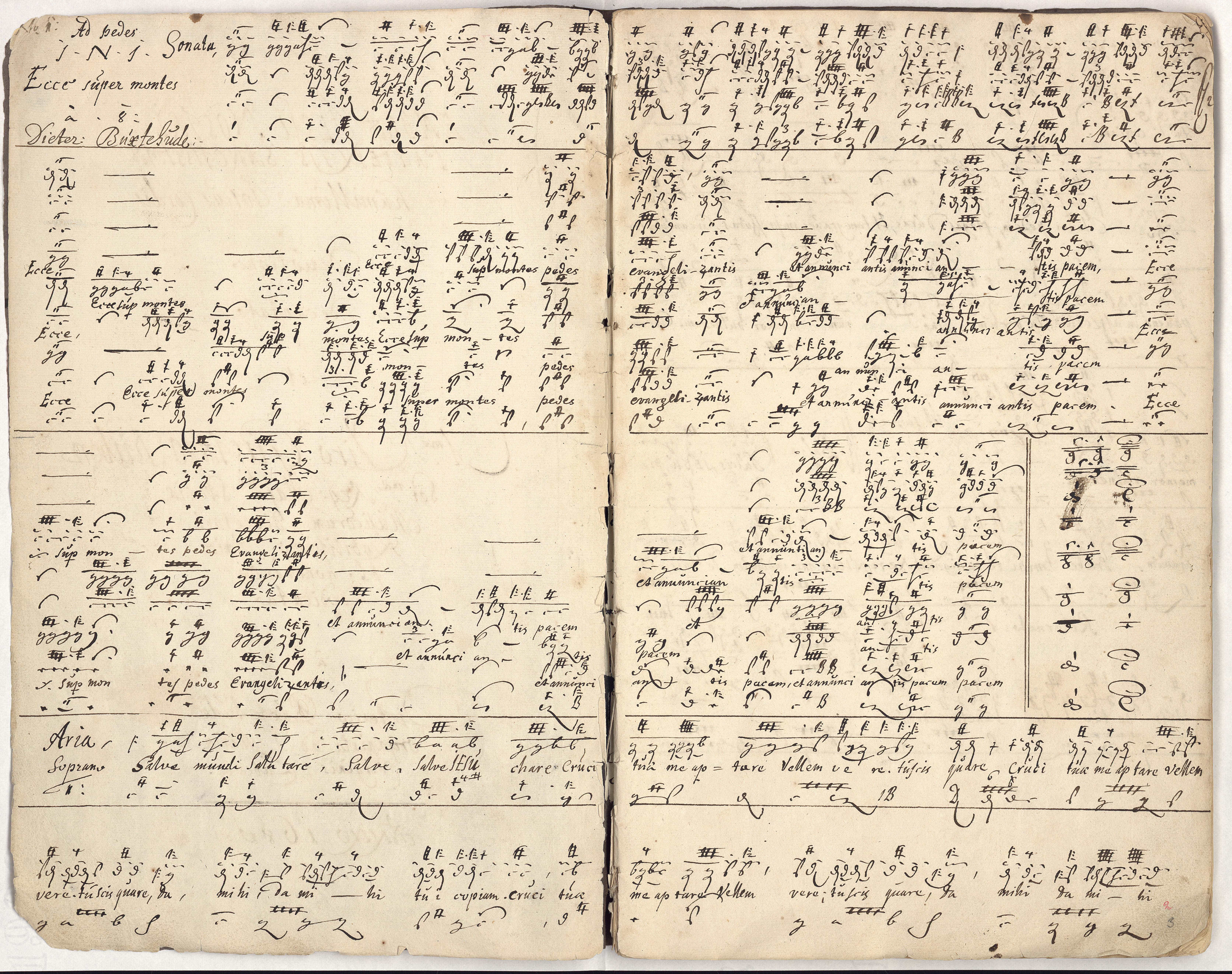 First page of original manuscript of Ad Pedes, the first cantata from Membra Jesu Nostri